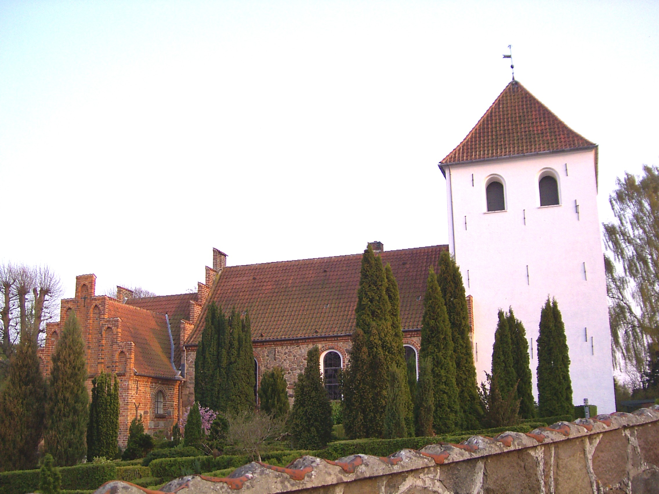 Church of Lynge, Sealand